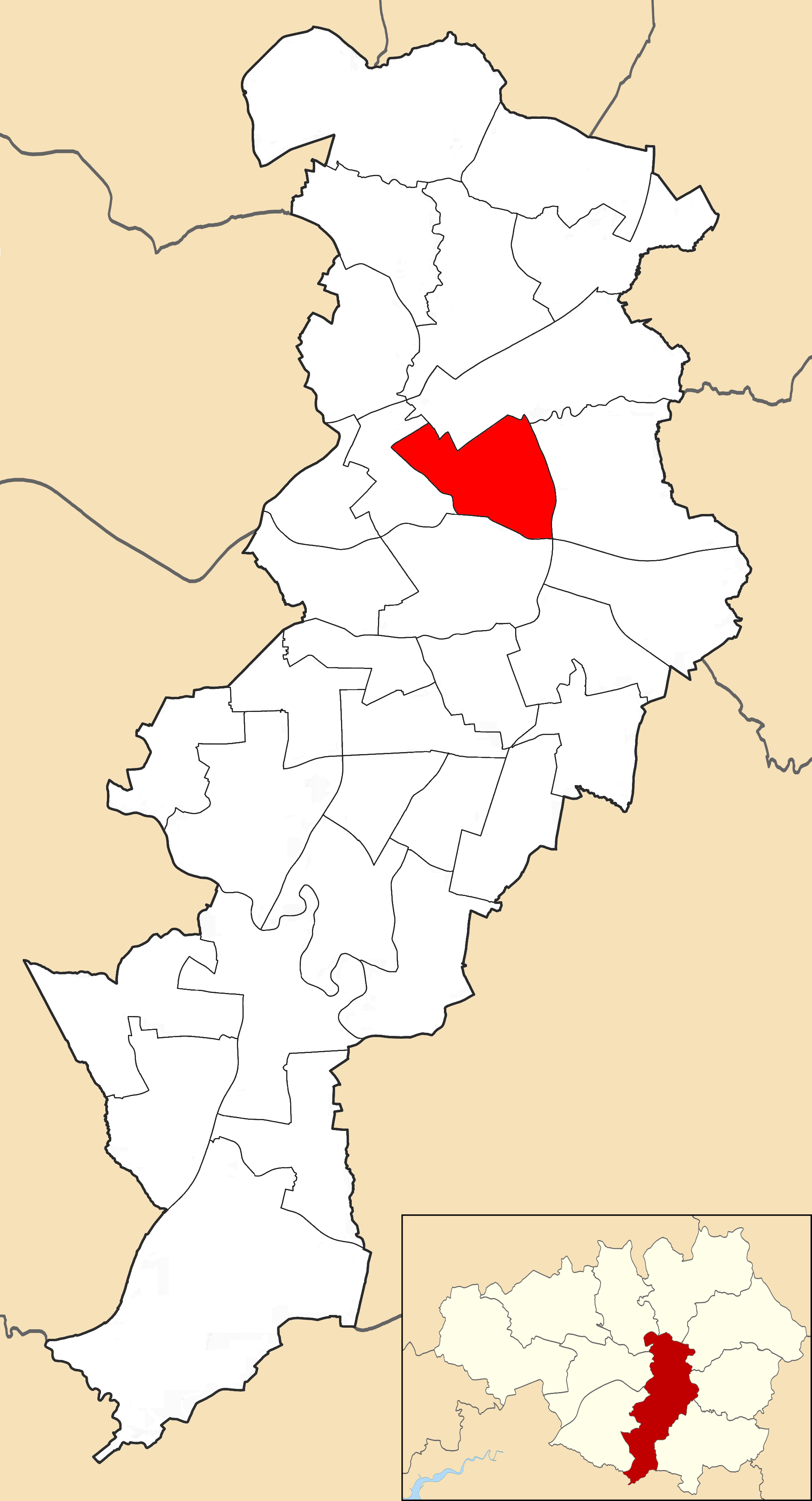 Map showing location of Ancoats and Beswick ward within Manchester City Council.